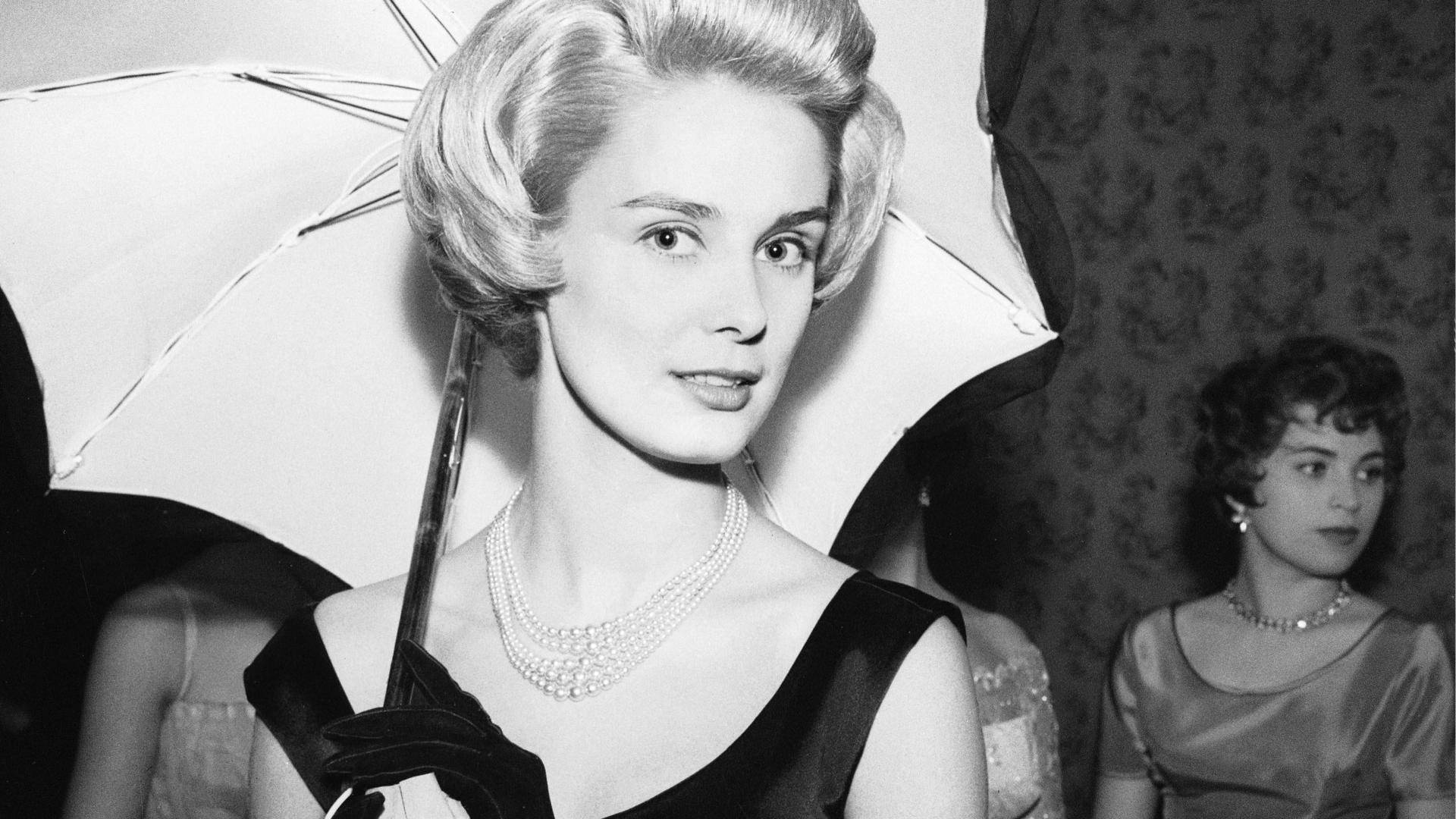 Photograph of the Finnish beauty pageant, Miss World of 1957, Marita Lindahl (1938–2017).